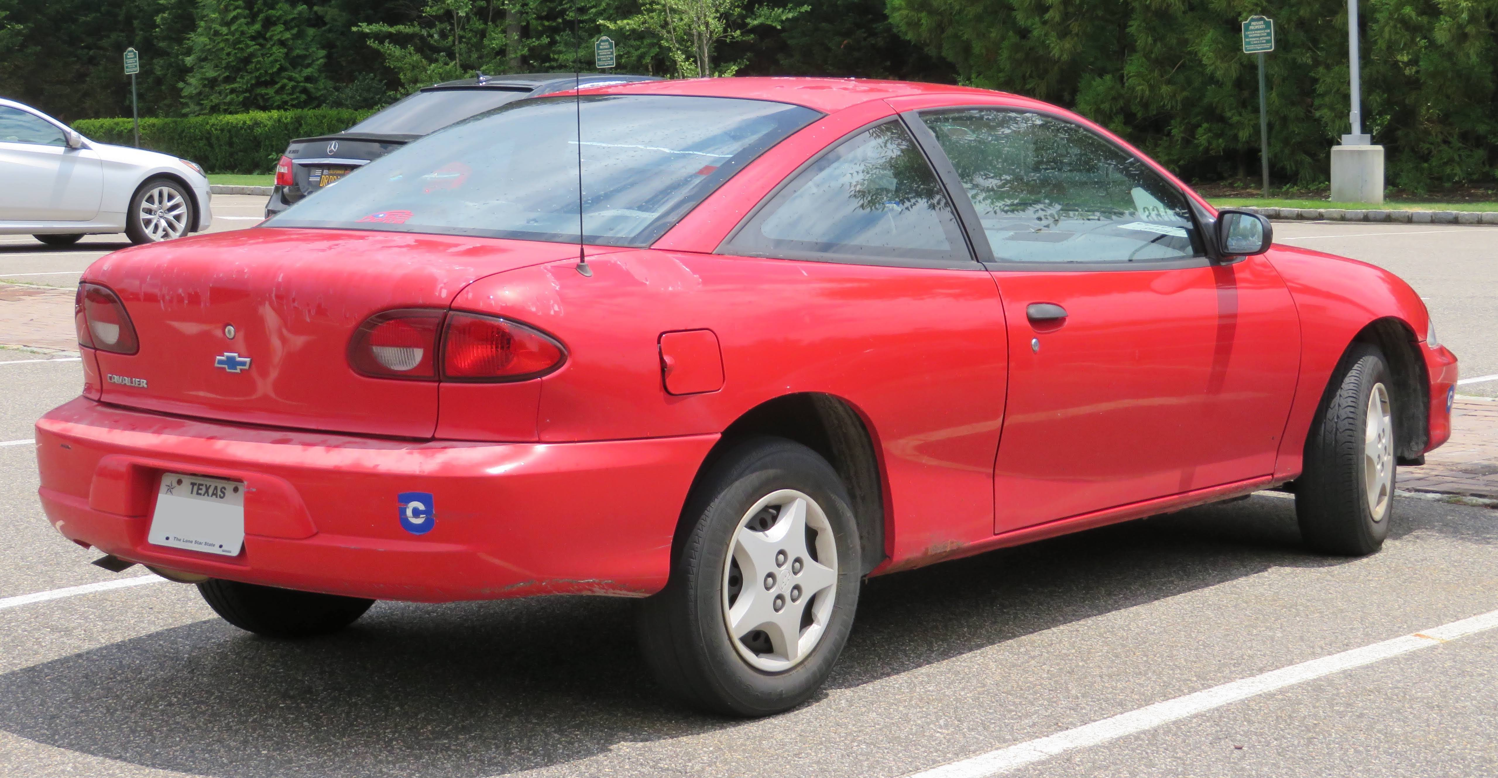 Photographed in Long Island, New York